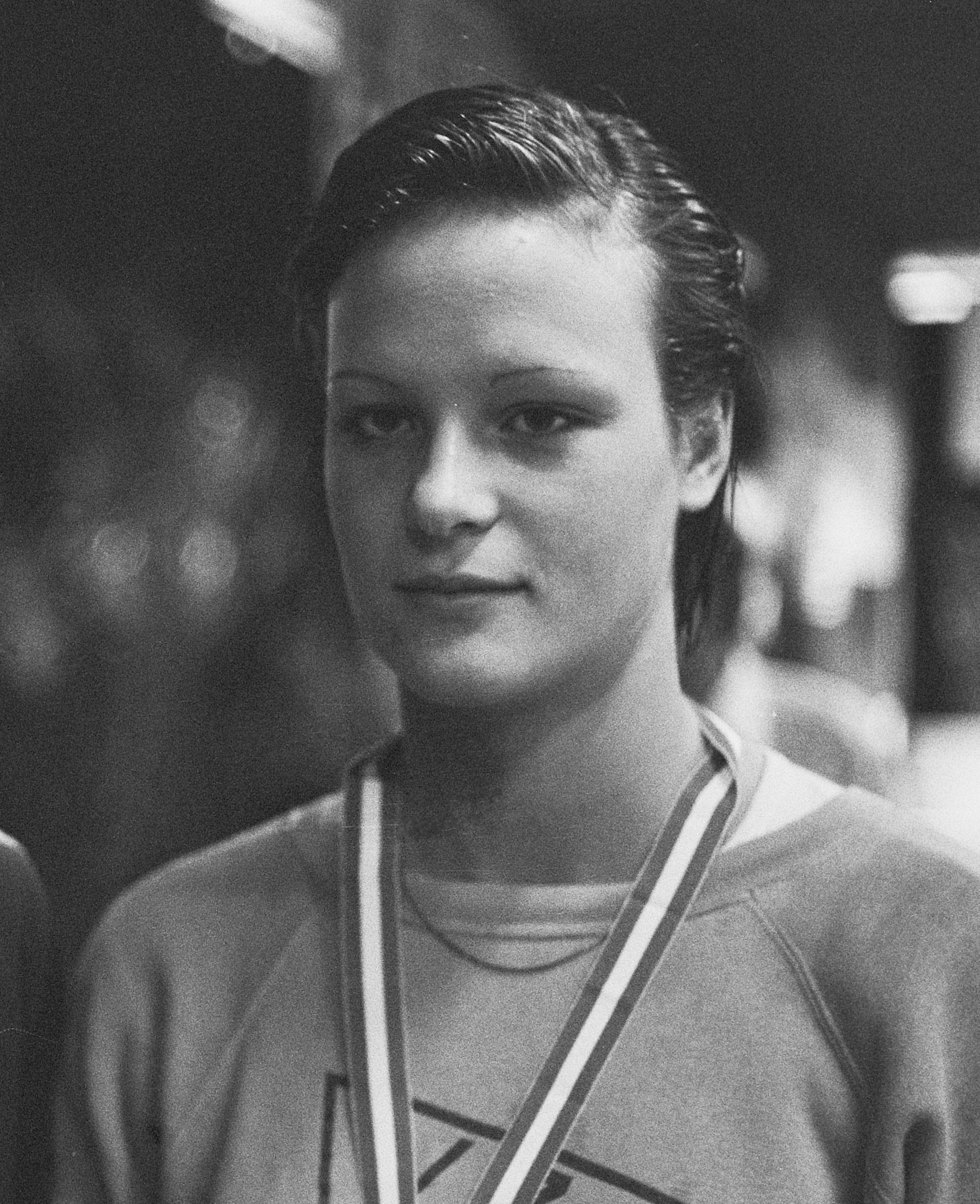 Diane Edelijn at national championships